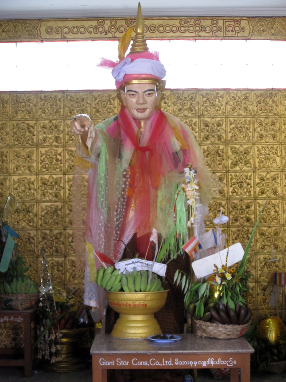 Bo Bo Gyi (guardian spirit) of the Botahtaung Pagoda in Yangonမြန်မာဘာသာ: ရန်ကုန်မြို့ရှိ ရောဟဏီ ဗိုလ်တထောင် ဘိုးဘိုးကြီး